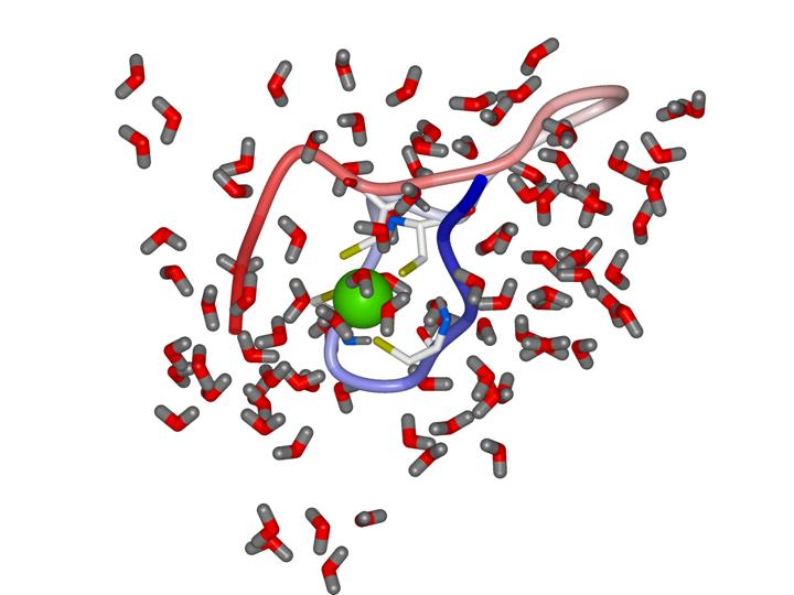 Zinc interaction with cysteine is displayed with a short peptide that mimics the active site in alcohol dehydrogenase. A snapshot taken from a molecular dynamics simulation.